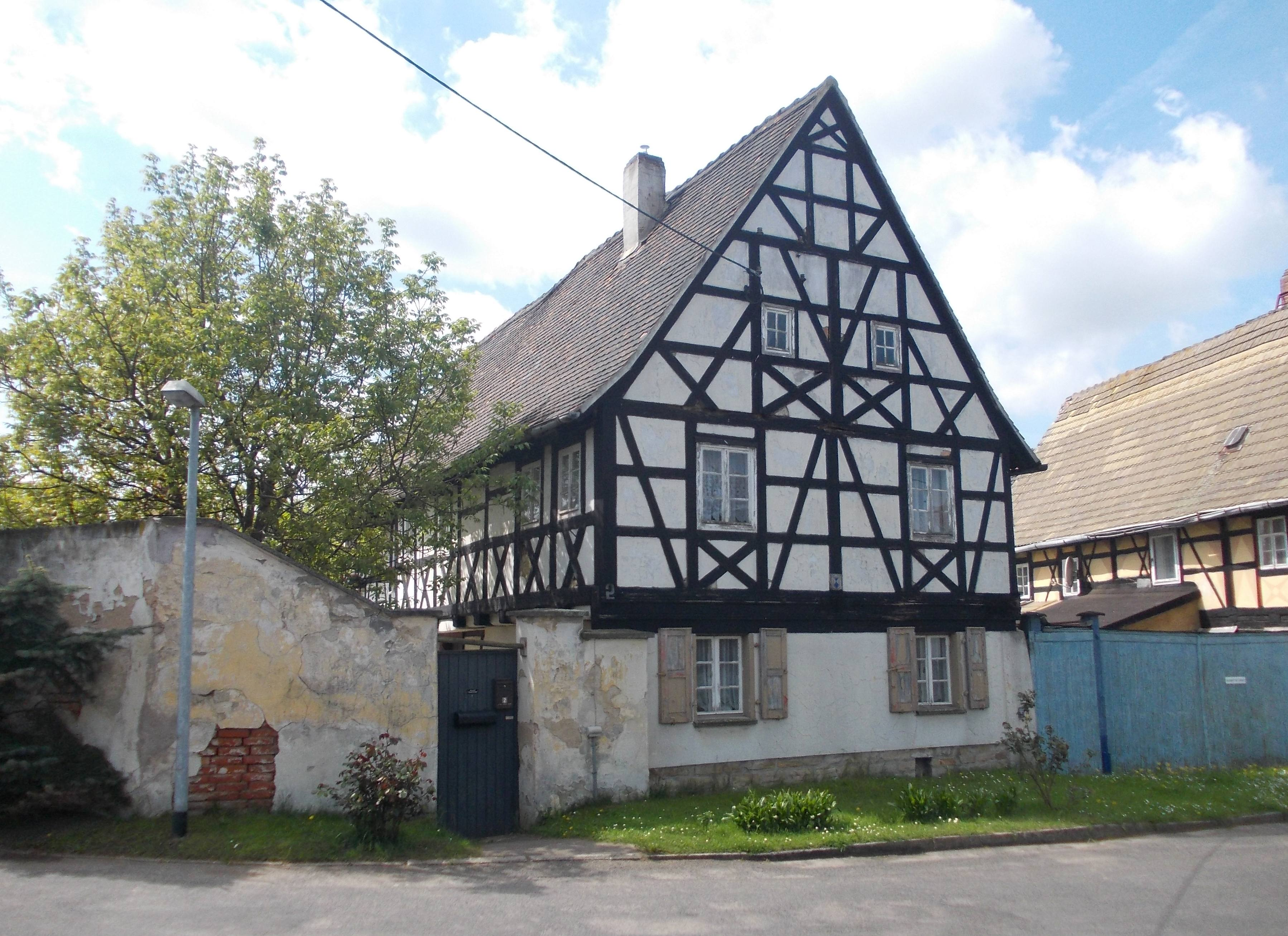 Half-timbered buildings in Altengroitzsch (Groitzsch, Leipzig district, Saxony)